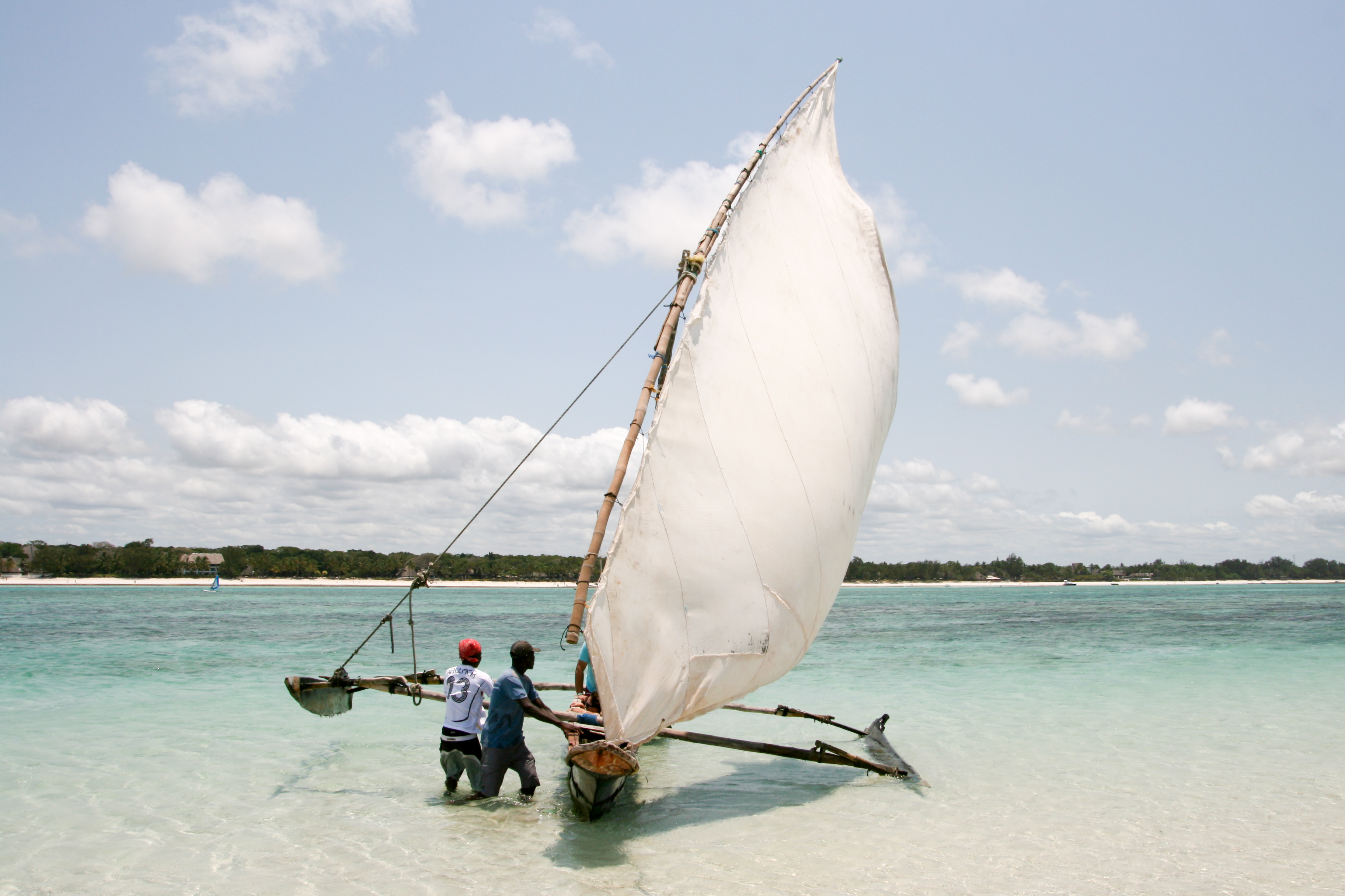 Outrigger canoe (Dhow) in Diani Beach, Kenya